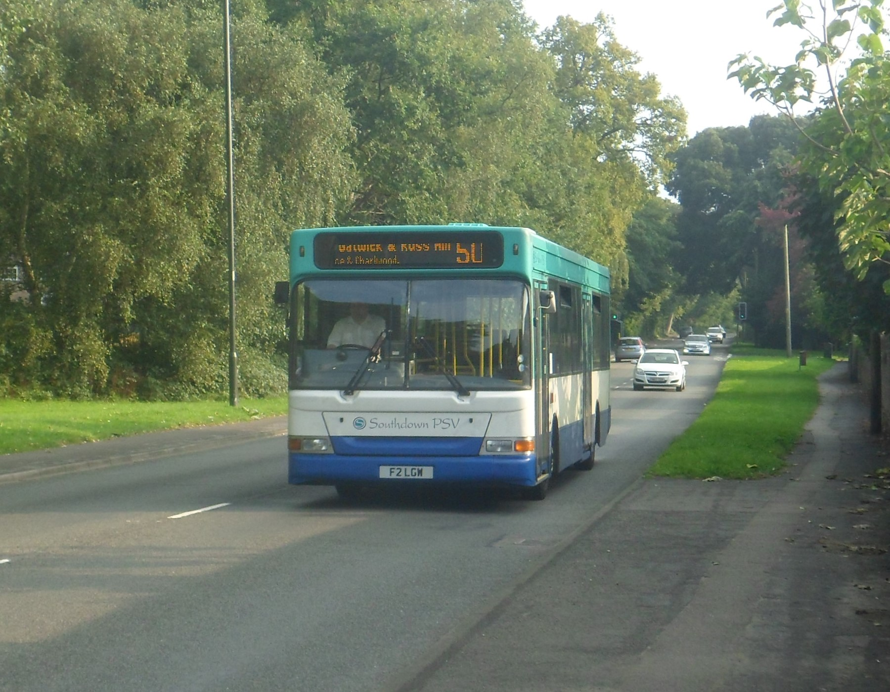 Southdown PSV bus F2 LGW travelling northbound on route 50 along Balcombe Road at the north end of Pound Hill, Crawley, West Sussex, England. It is passing the Orde Close stop and will shortly be turning left on to Crawley Avenue. This was the first day of operation of the new routes 40 (southbound) and 50 (northbound), which run from the Europa Hotel at Maidenbower to the Russ Hill Hotel at Charlwood via Pound Hill, Three Bridges, Manor Royal, Gatwick Airport and Charlwood village. Update: these routes were withdrawn in 2015.